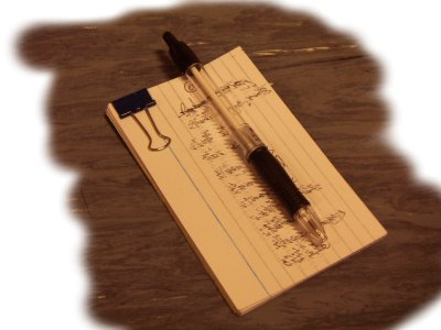 Hipster PDA. Photo by John Arundel, September 2005.